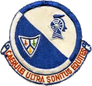 476th Tactical Fighter Squadron - Emblem